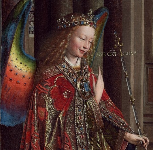 The Annunciation is an oil painting by the Early Netherlandish master Jan van Eyck, from around 1434-1436. The panel is housed in the National Gallery of Art, in Washington D.C. It was originally on panel but has been transferred to canvas. It is thought that it was the left (inner) wing of a triptych; there has been no sighting of the other wings since before 1817. The annunciation is a highly complex work, whose iconography is still debated by art historians. The picture depicts the Annunciation by the Archangel Gabriel to the Virgin Mary that she will bear the son of God (Luke 1:26-38). The inscription shows his words: AVE GRÃ. PLENA or "Hail, full of grace...". She modestly draws back and responds, ECCE ANCILLA DÑI or "Behold the handmaiden of the Lord". The words appear upside down because they are directed to God and are therefore inscribed with a God's-eye view. The Seven gifts of the Holy Spirit descend to her on seven rays of light from the upper window to the left, with the dove symbolising the Holy Spirit following the same path; "This is the moment God's plan for salvation is set in motion. Through Christ's human incarnation the old era of the Law is transformed into a new era of Grace".